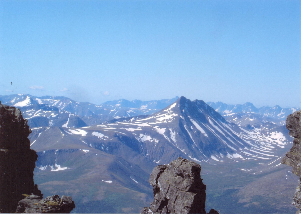 Ural mountains